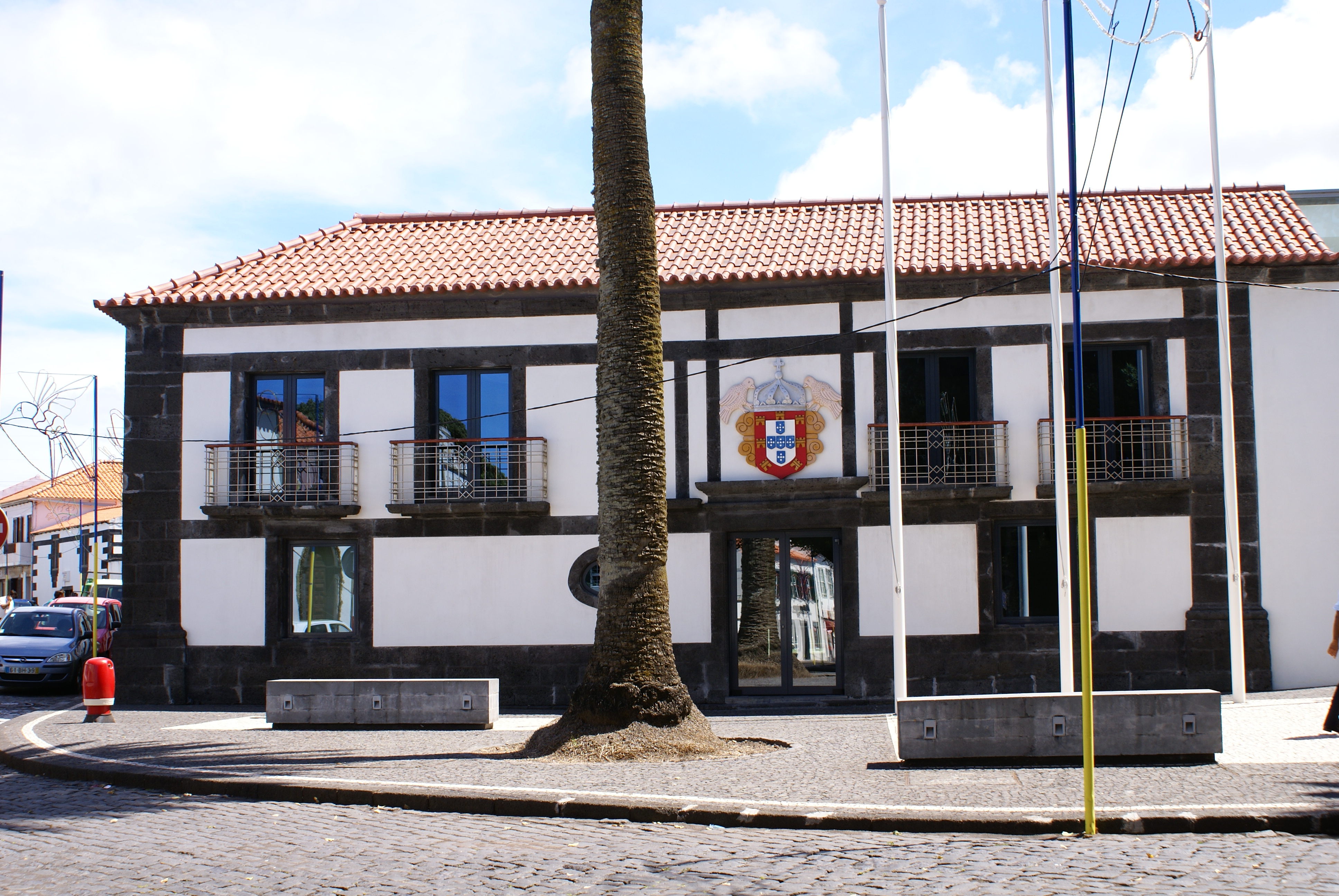 The Municipal Chamber of Madalena, municipality of Madalena do Pico, Pico (Azores), Portugal